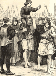 Engraving of Lambert Simnel